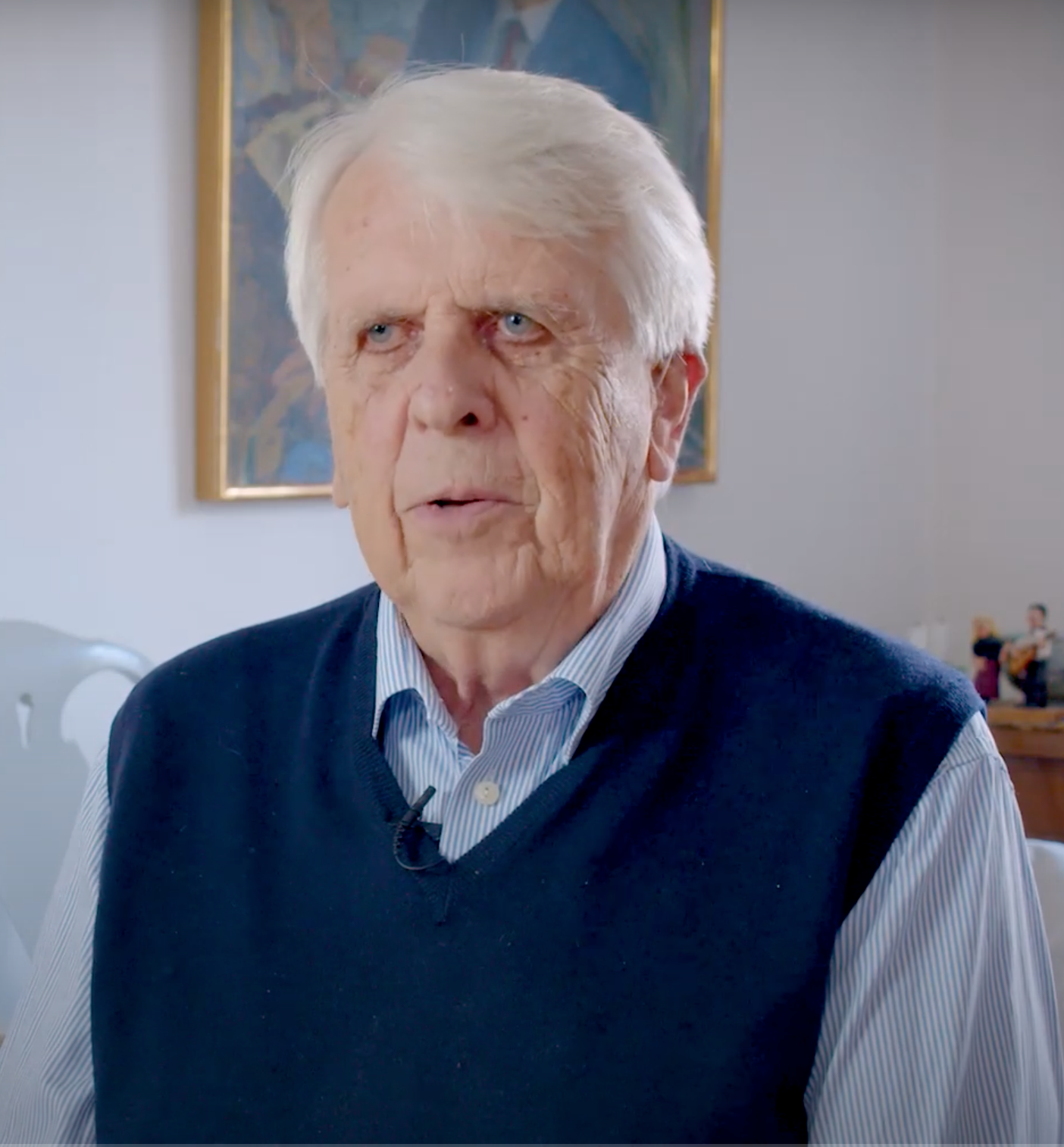 Tomas Ohlin, Swedish scientist. Screenshot from a video interview made by Internetmuseum 2019.